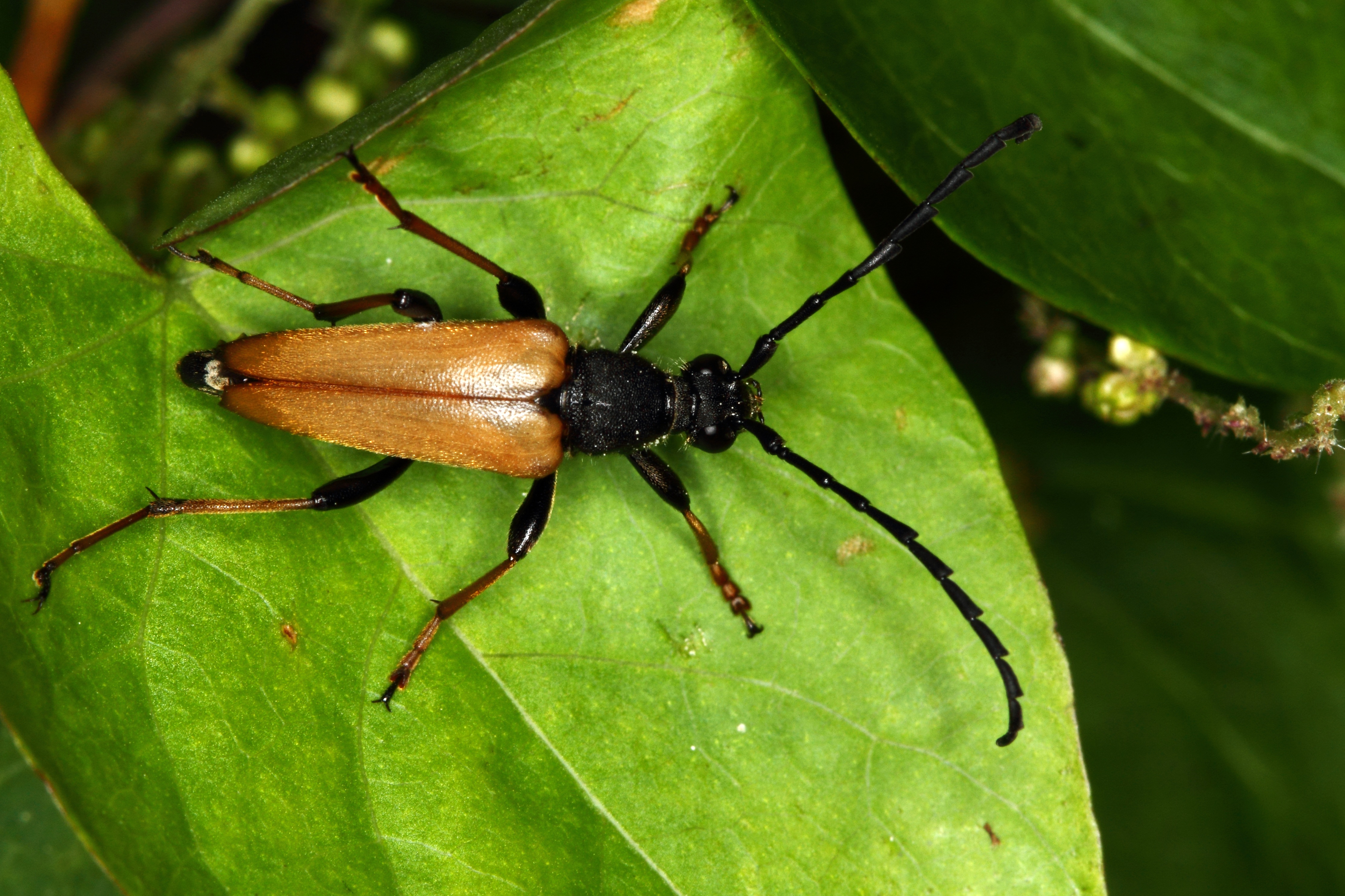 Sachsen, Waldrand: Rothalsbock_(Stictoleptura_rubra)_männlich